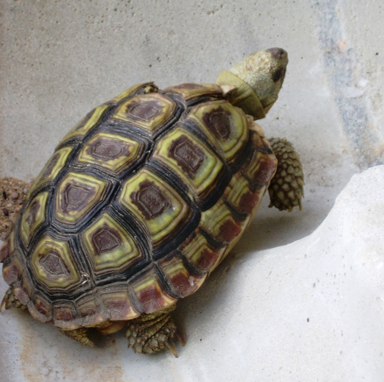 Homopus areolatus. Beaked padloper tortoise photographed in a Cape Town suburban drain. Injured probably from dog bite.